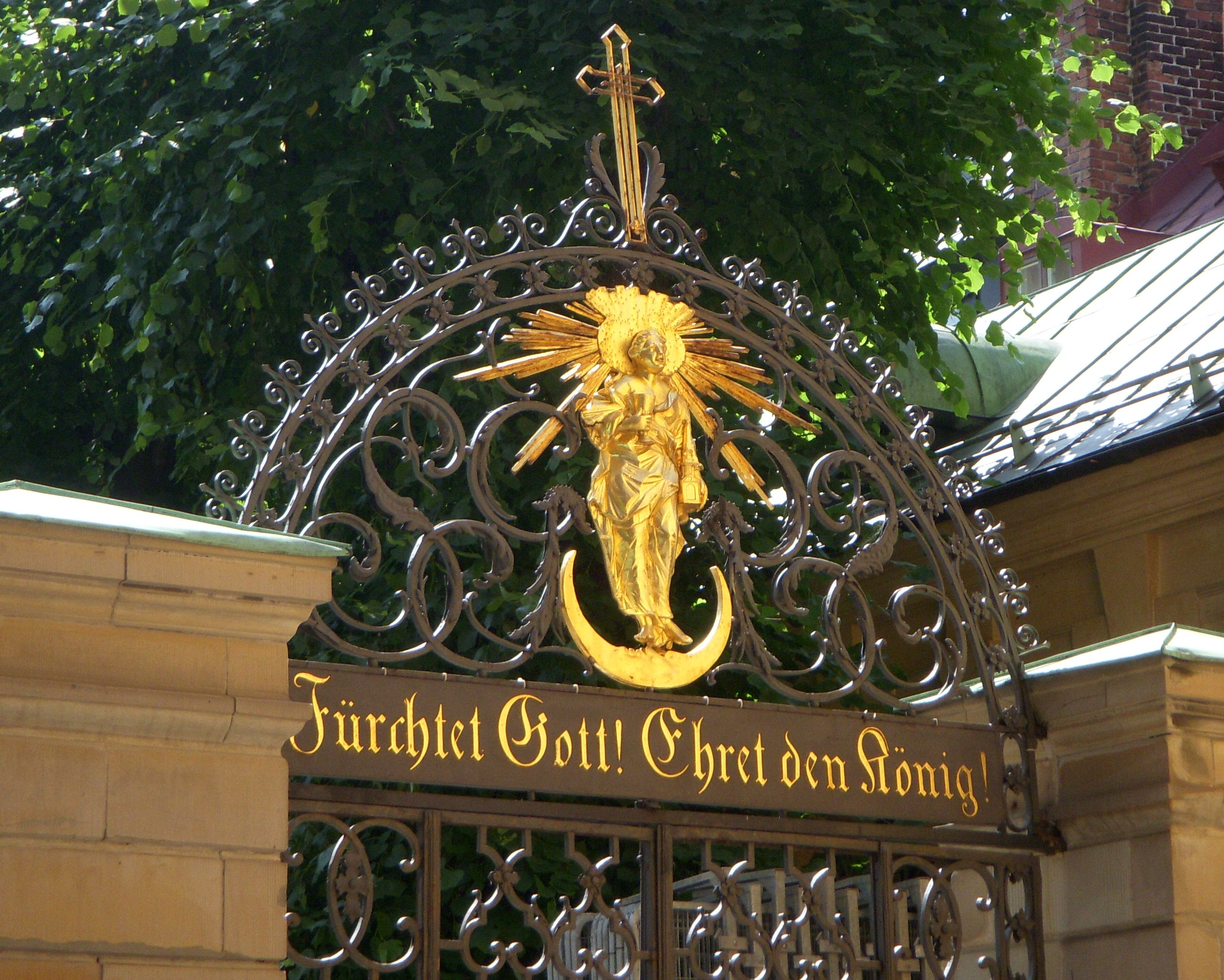 German Church, Stockholm. Gate from the street Tyska brinken.